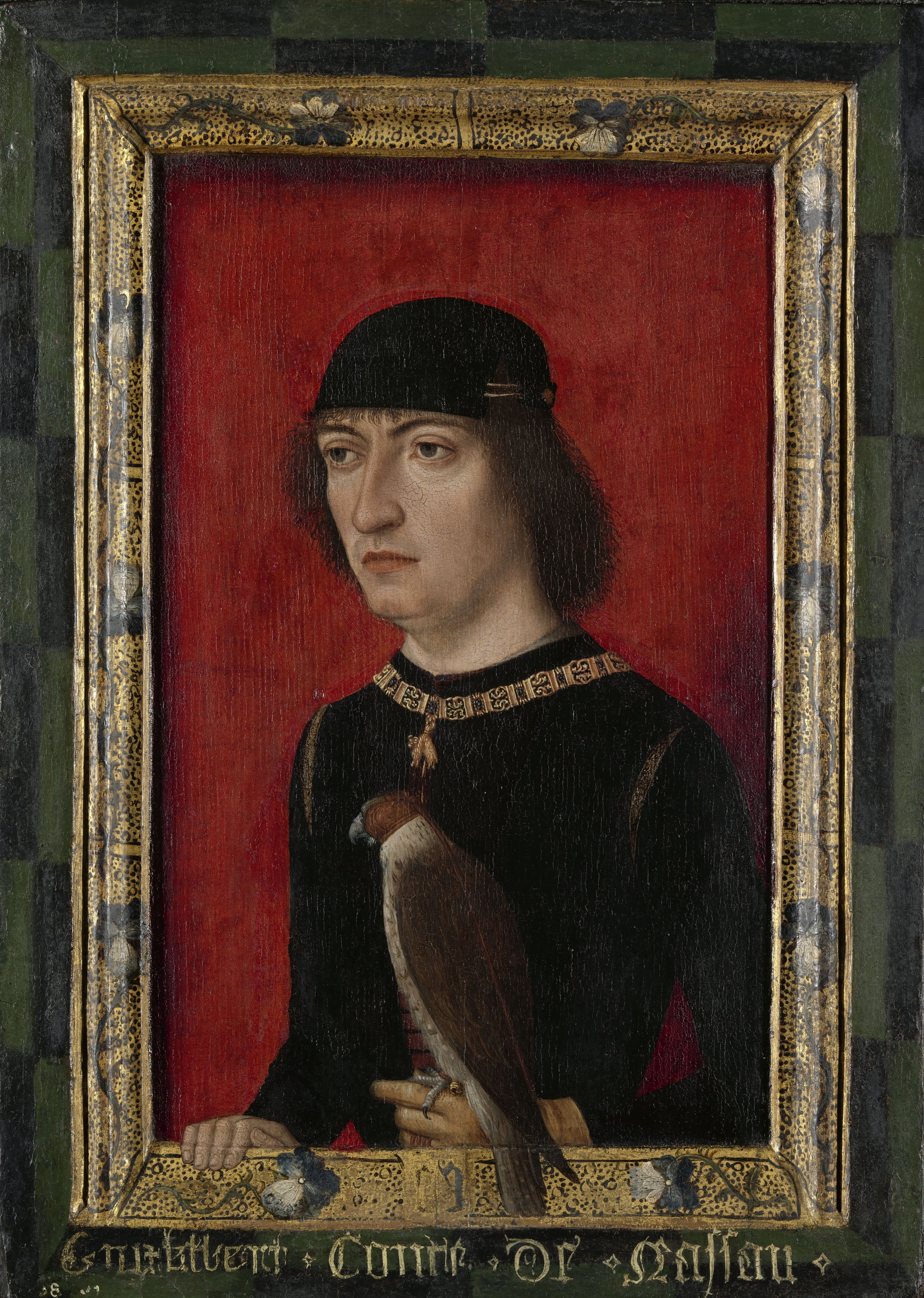 This portrait shows Engelbert II of Nassau, the future regent of the Netherlands, at around the age of 35. He is portrayed at half length, wearing a black doublet over a red undergarment that is visible at the slit sleeve and through the black lacing at his chest. He is also wearing a small black cap with a brim and the collar of the Order of the Golden Fleece. The edge of a white shirt, which Engelbert appears to be wearing under the red garment, is just visible at the collar. X-ray photography has revealed that there were originally slits in the jacket at his chest and shoulders, which exposed more of his white shirt. The X-rays also revealed that his hat originally fit somewhat closer to the head and had a smaller brim, which was held in place by two large stitches.